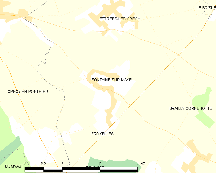 Map of French municipality Fontaine-sur-Maye